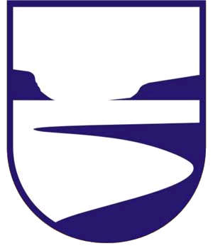 COA of Tálknafjörður